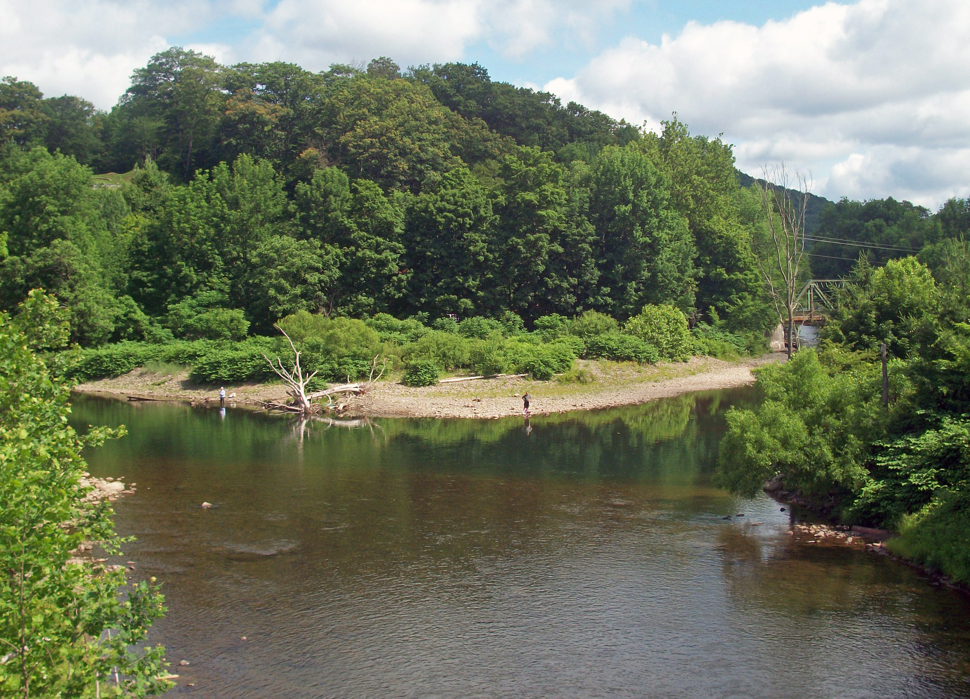 Junction Pool, the confluence of the Beaver Kill and Willowemoc Creek, and one of the most important spots in the history of dry-fly fishing, seen from the NY 17 overpass over the Willowemoc at Roscoe, NY, USA